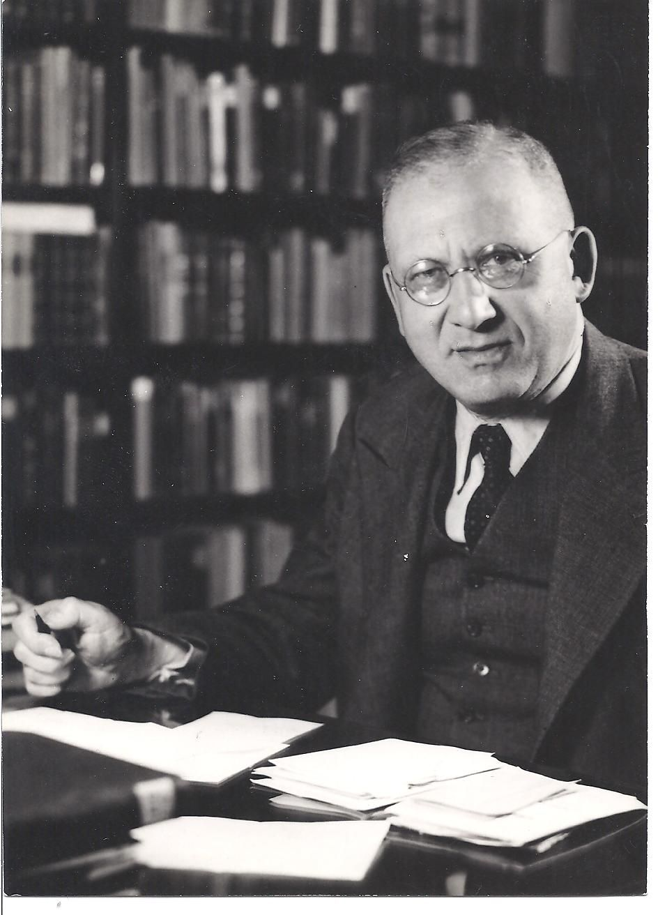 Gotthold Weil (1882-1960), German-Israeli orientalist, philologist and librarian